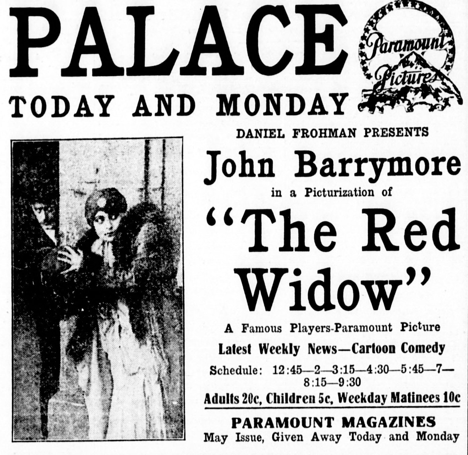 The Red Widow is a lost 1916 silent comedy film produced by Famous Players-Lasky, distributed by Paramount Pictures. This is a contemporary newspaper advert for the film.